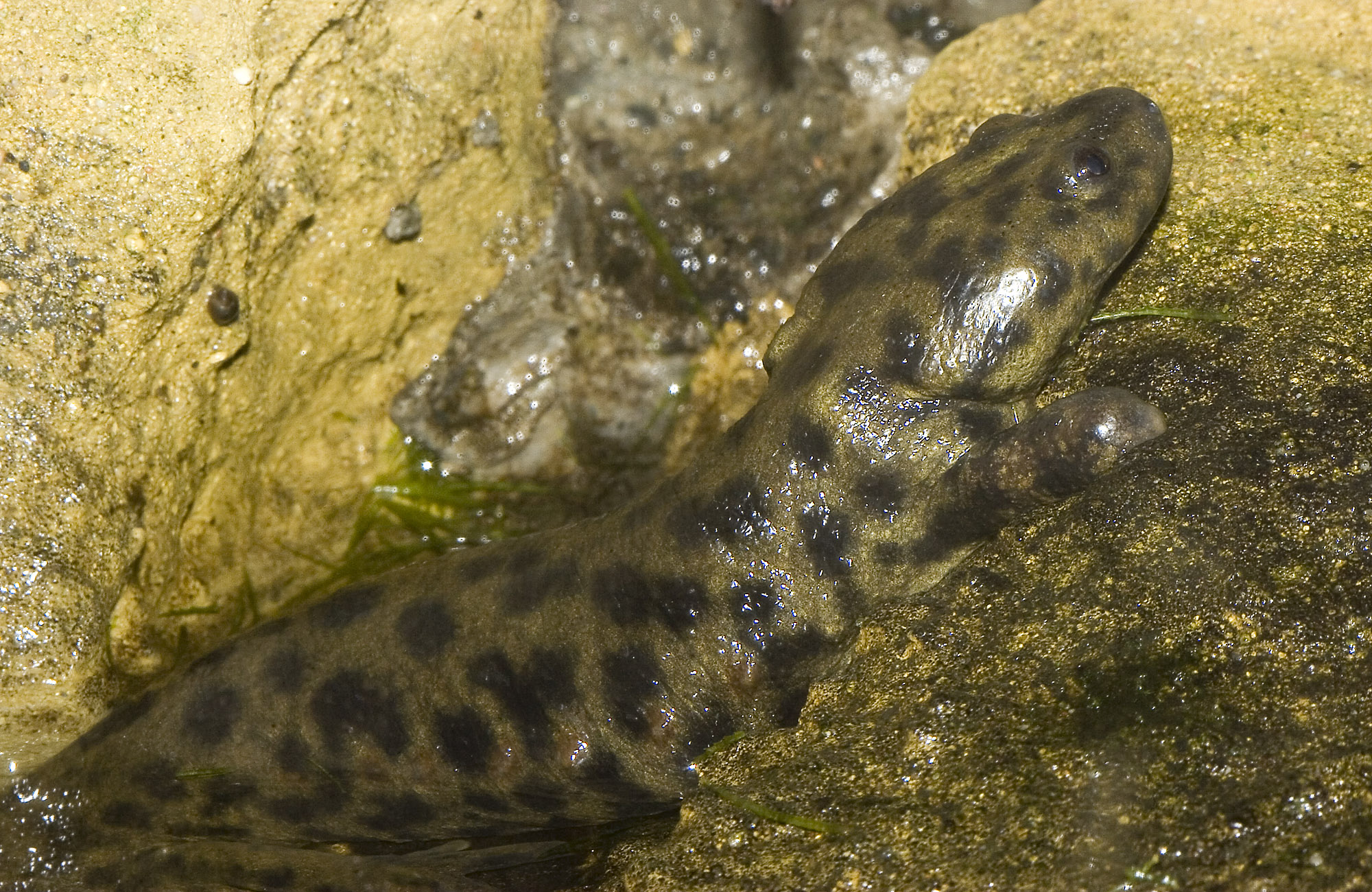 Iberian Ribbed Newt; Pleurodeles waltl, young?